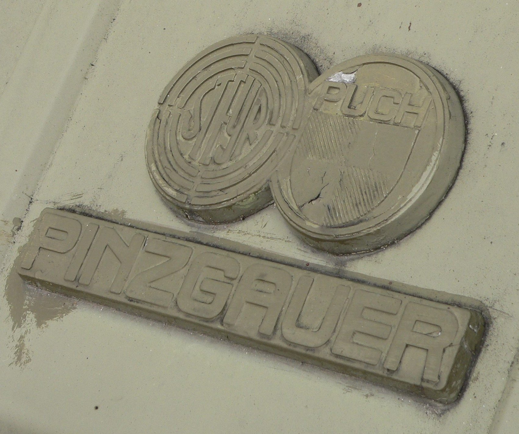 Pinzgauer vehicle of the Swiss Army